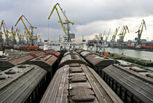 Rail terminal at Poti, Georgia: proposed loan intended to help mitigate adverse effects of recent conflict, IMF says.